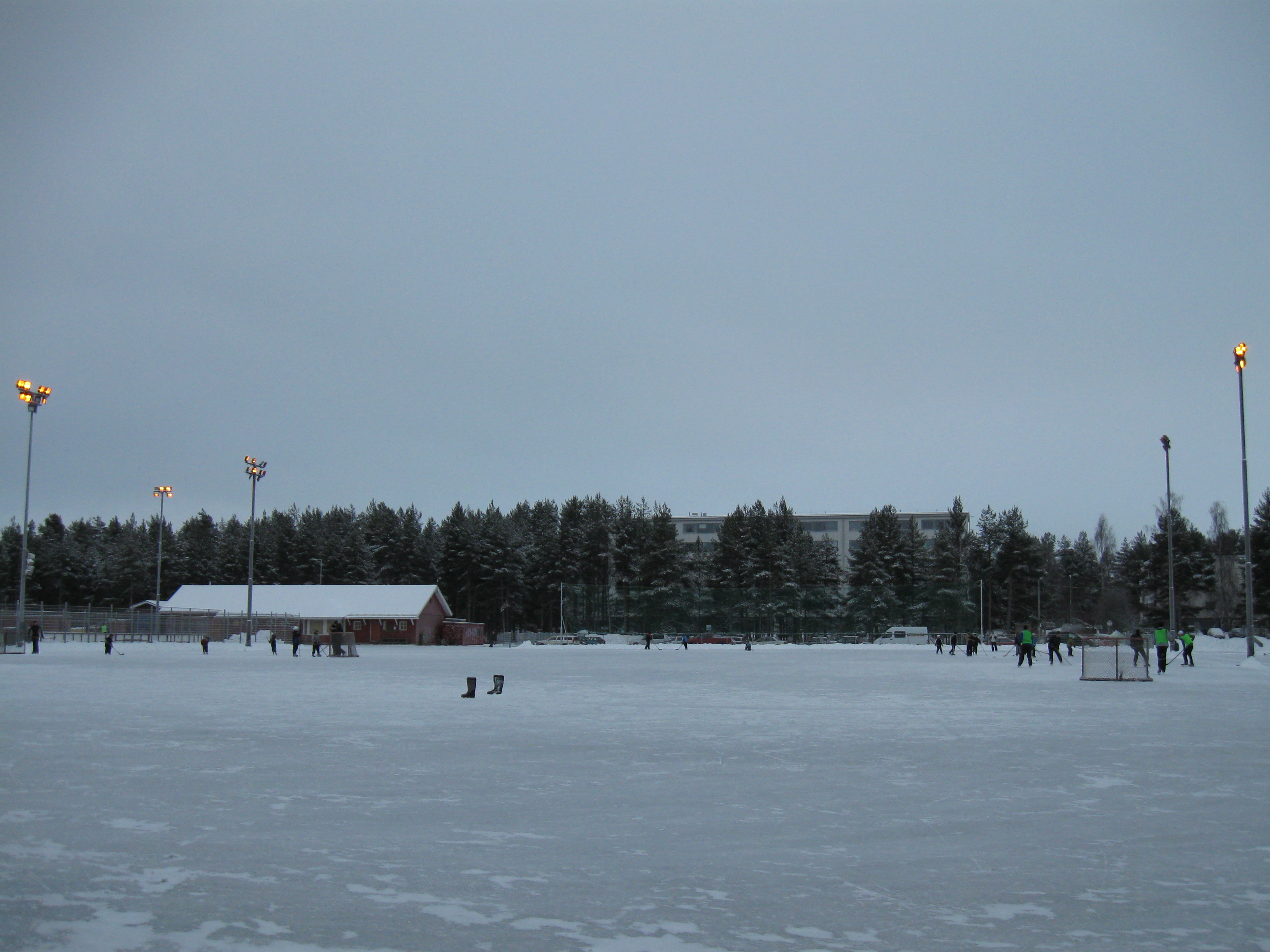 The sports area in Lintula, Oulu, Finland.